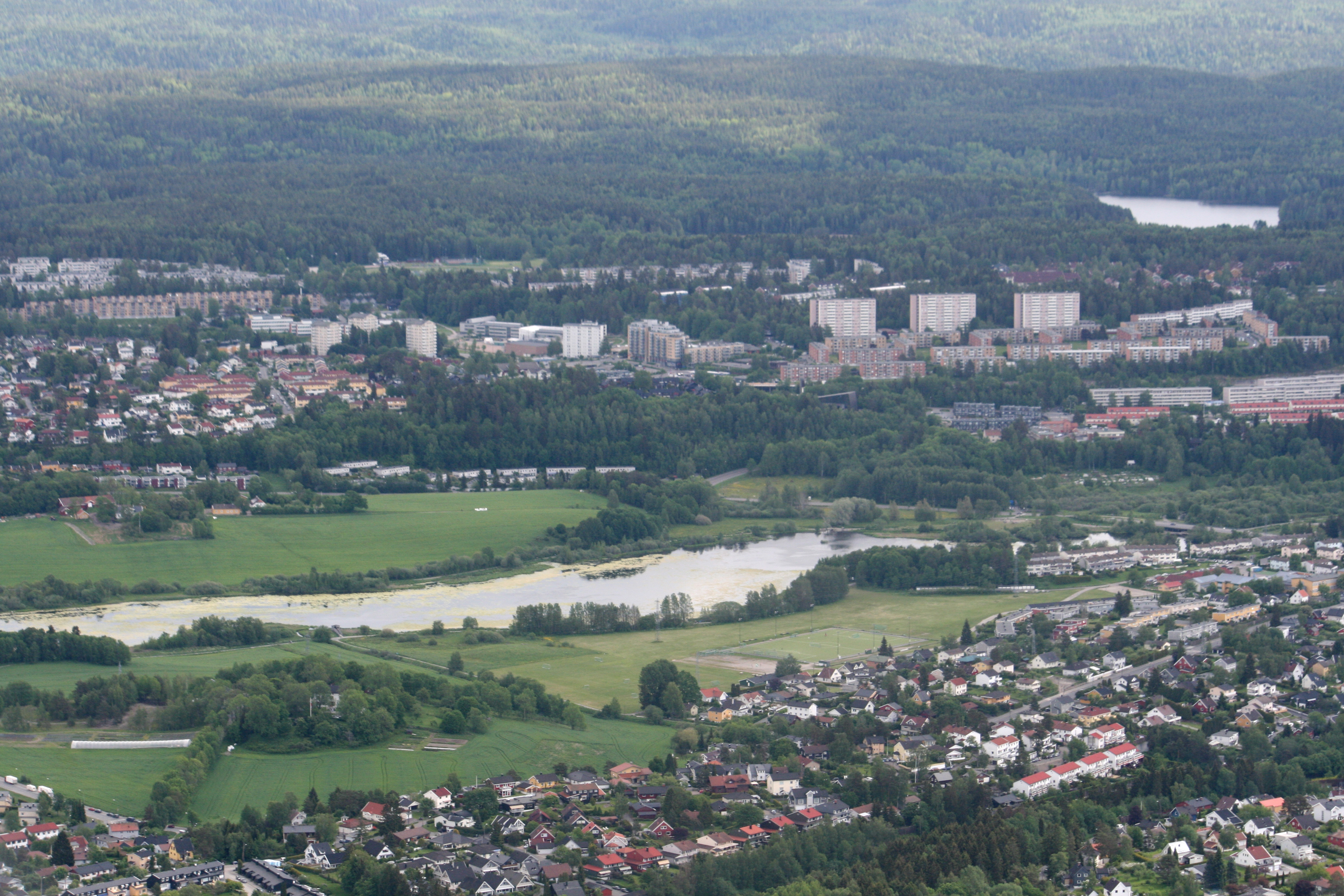 Aerial photograph from June 14th, 2015.